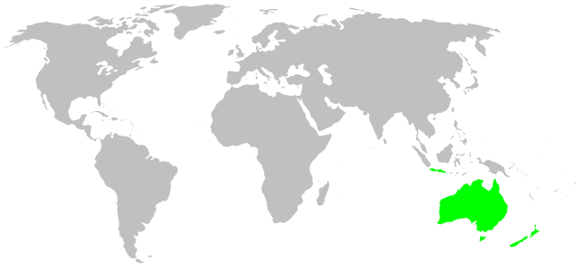 Cycloctenidae habitat distribution, drawn after Platnick: World Spider Catalog 7.0. This is not at all a precise rendering of the distribution! If you have better information, please replace this map, or send me the info, and i will redraw it.